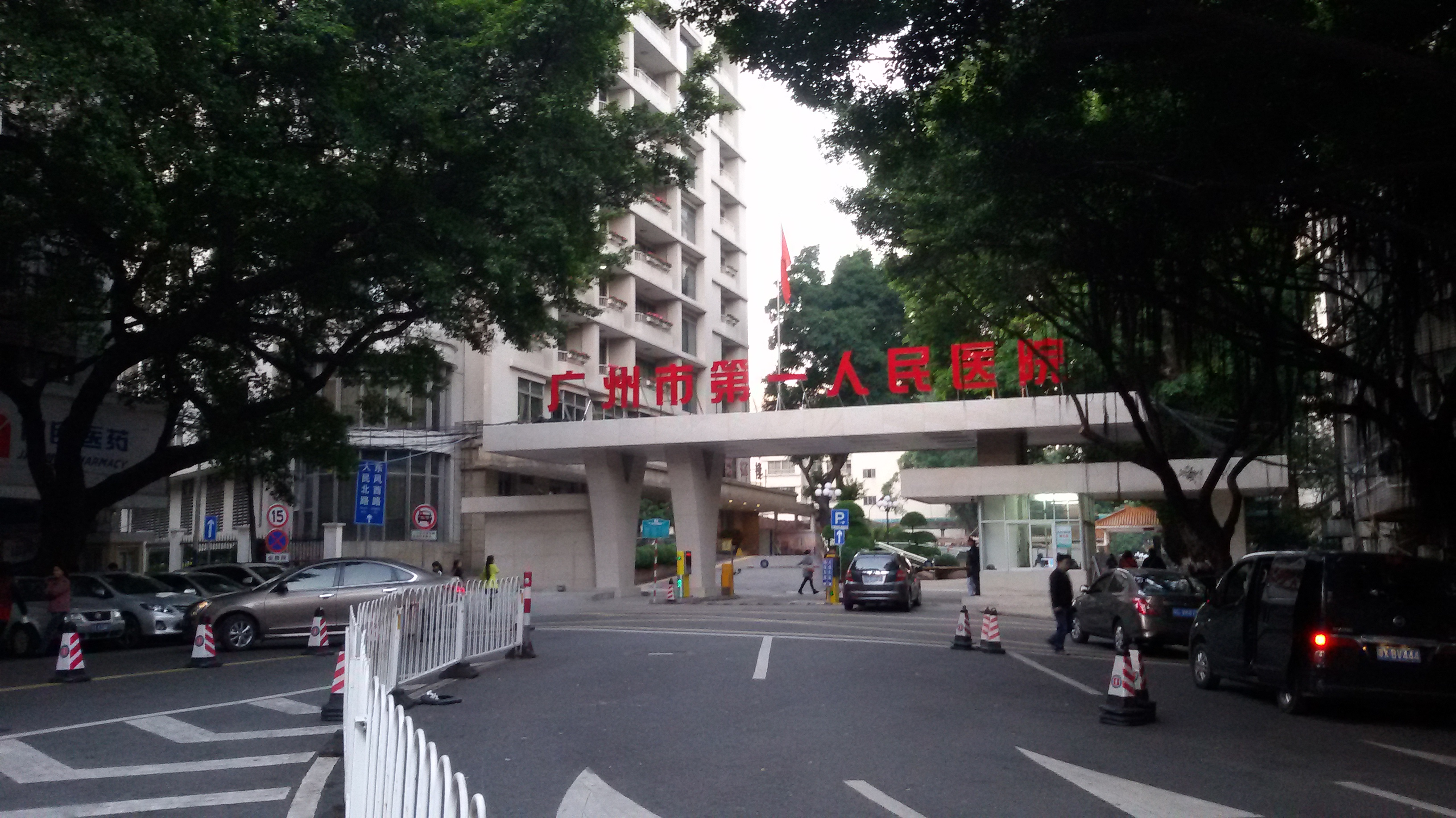 Guangzhou No. 1 People's Hospital